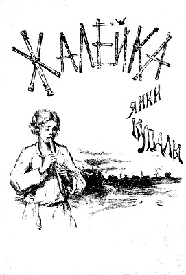 Photo of the first collection of poems by the Belarusian writer and dramatist Yanka Kupala The Little Flute Беларуская (тарашкевіца): Першы зборнік беларускага паэта Янкі Купалы — «Жалейка»